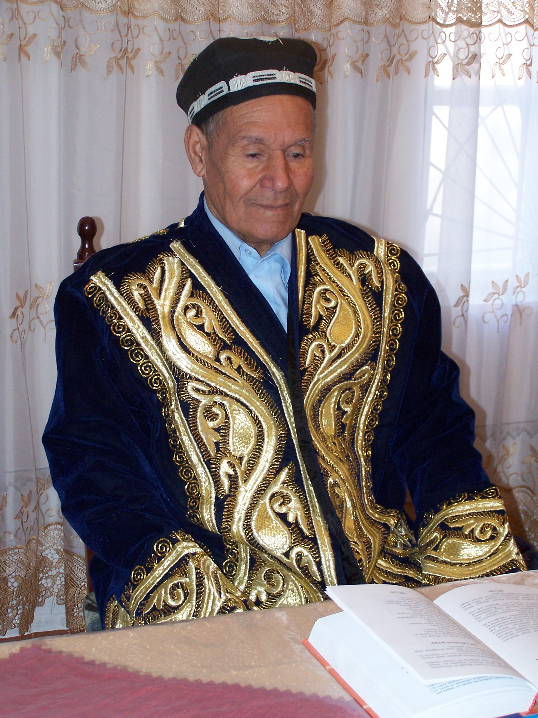 Asad Gulzoda inside his house in Bukhara.